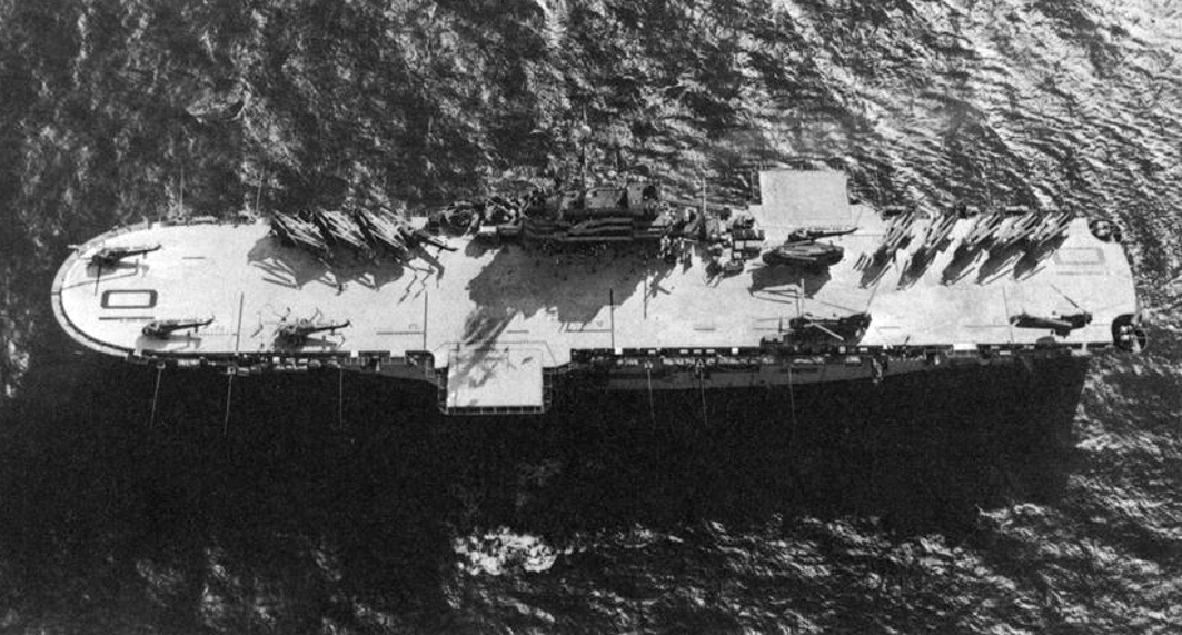 Aerial view of the U.S. Navy amphibious assault ship USS Tripoli (LPH-10), in 1967. Note the experimental light colour of the flight deck.